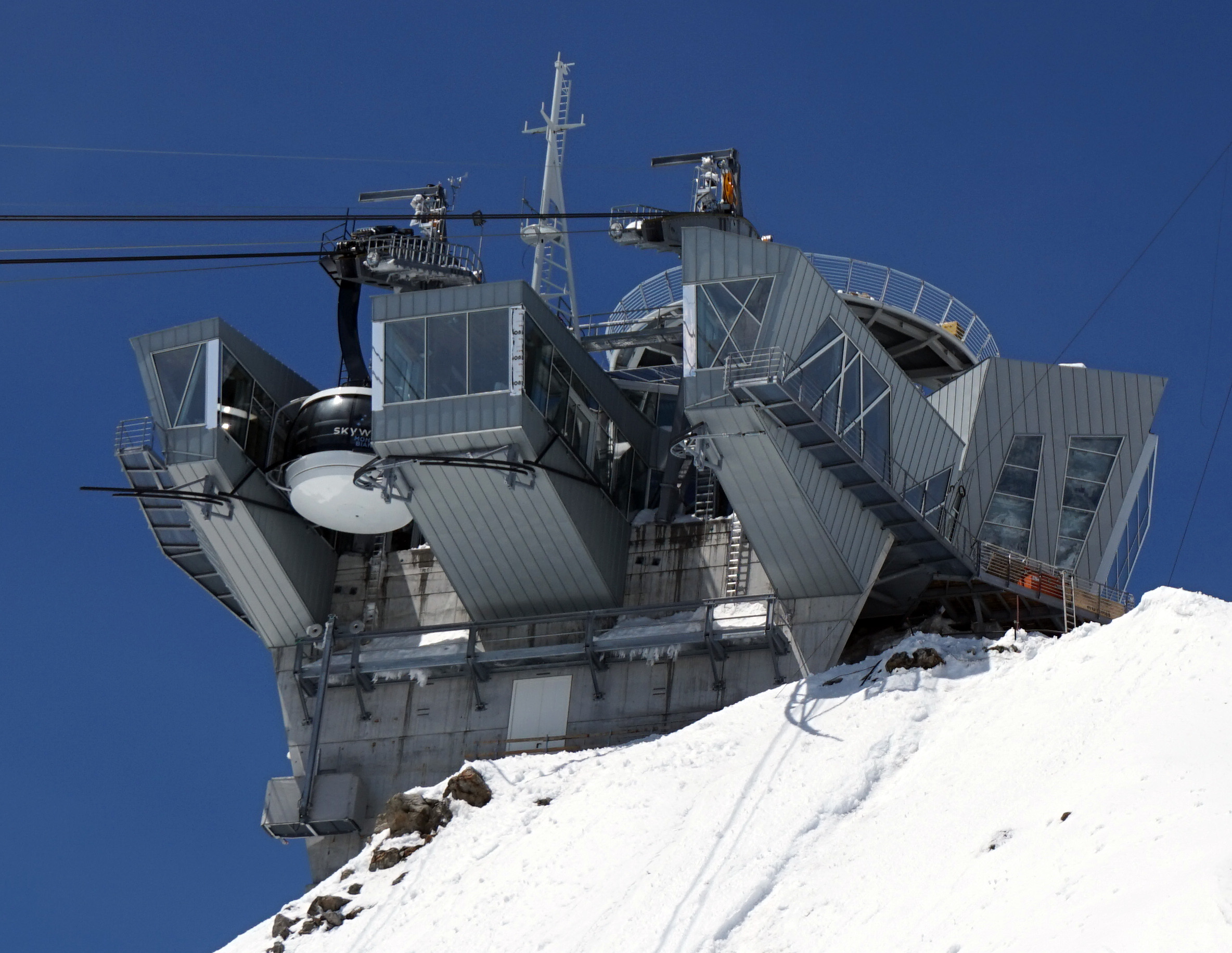 Helbronner cable car station This photograph was taken with a Sony Alpha a5000.